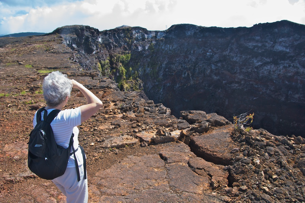 Mauna Ulu crater from north.